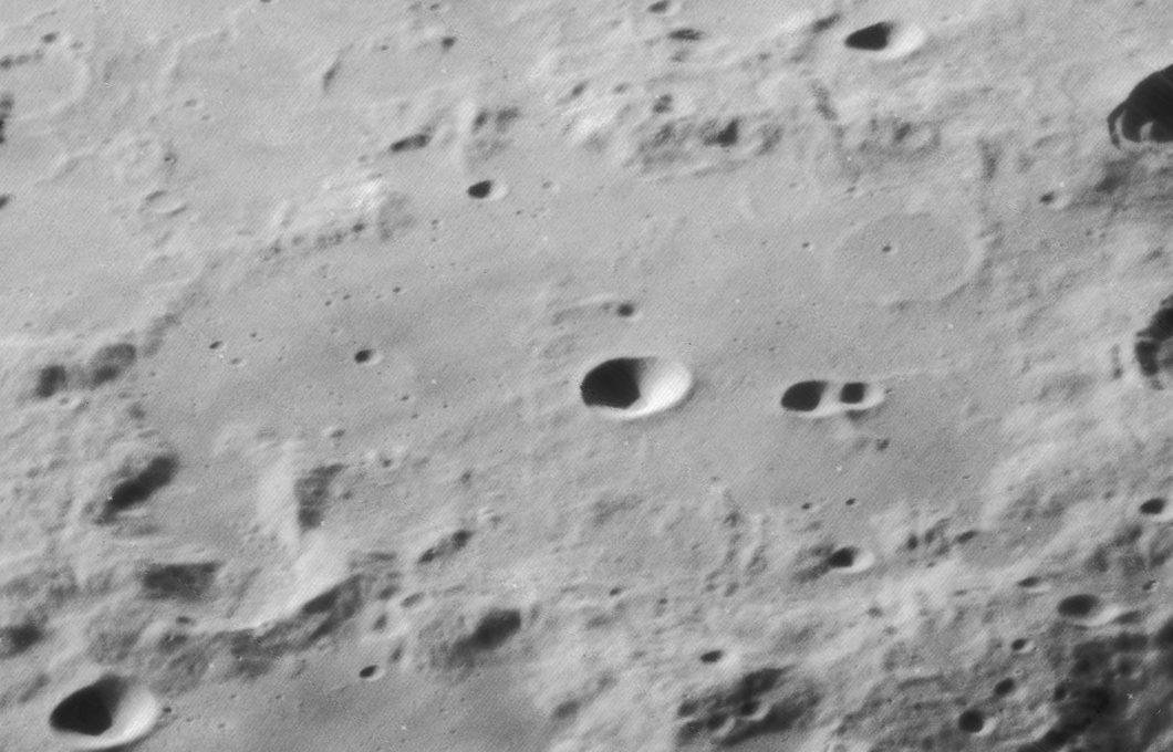 Oblique view of De La Rue, facing west, on the moon.